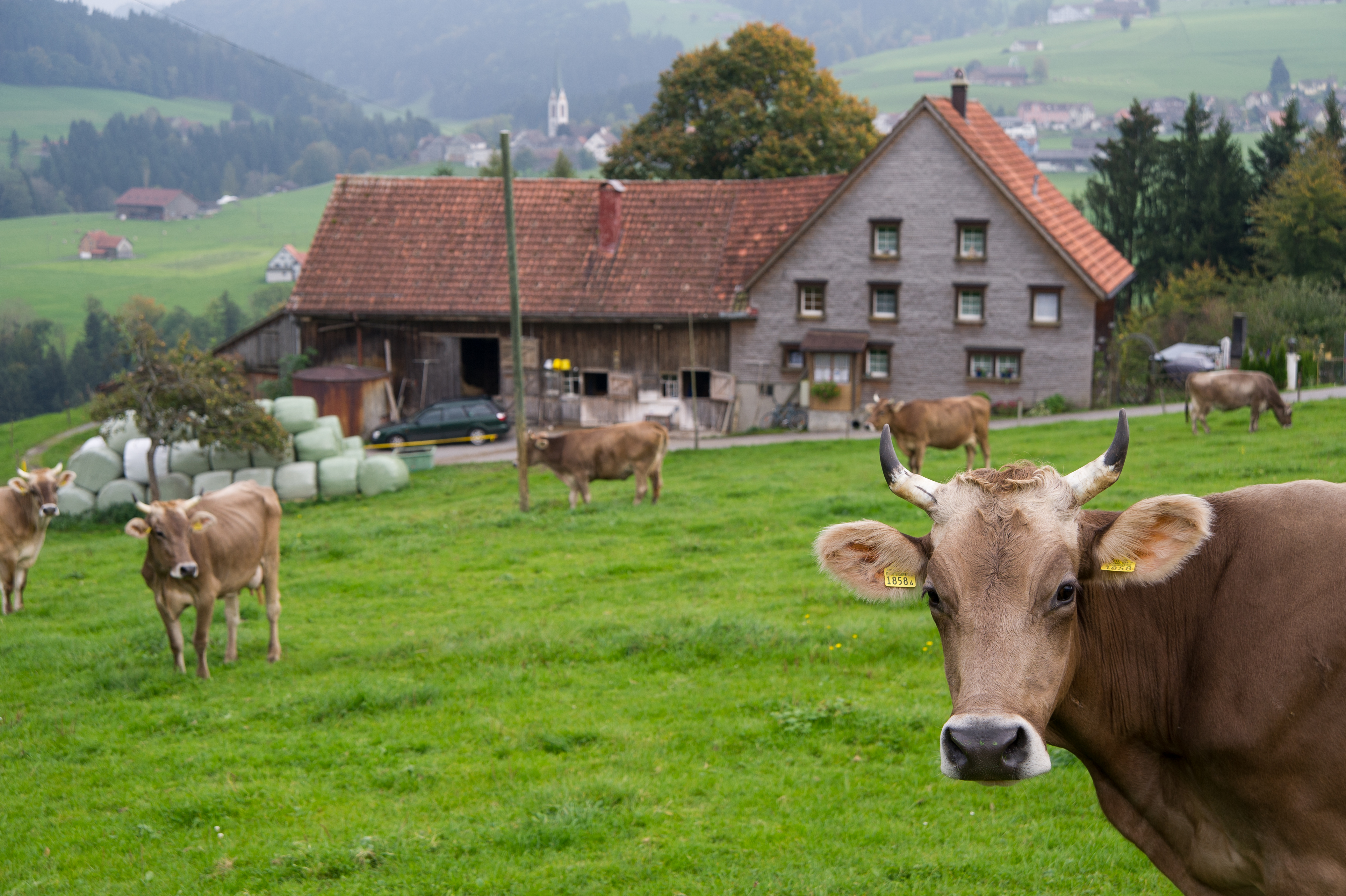 Bauernhaus